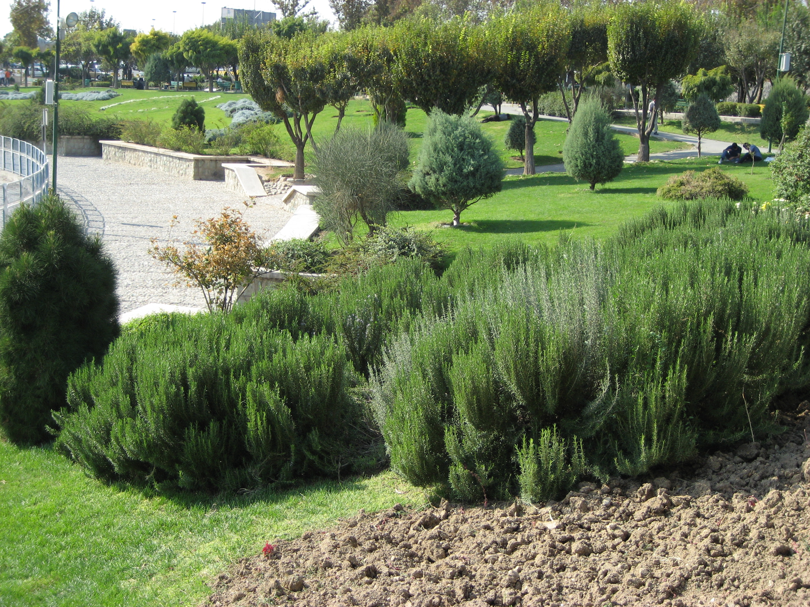 Al-Mahdi_Park, Southwest of Tehran, near Azadi Square